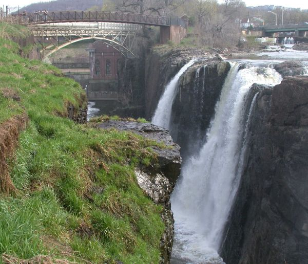 Great Falls of the Passaic River, showing the turbine housing of the Society for the Establishment of Useful Manufactures, Paterson © 2004 Matthew Trump